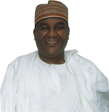 The photo/image of Late Senator Usman Albishir, indegene of Nguru Yobe State Nigeria, who died on Monday 2nd July 2012